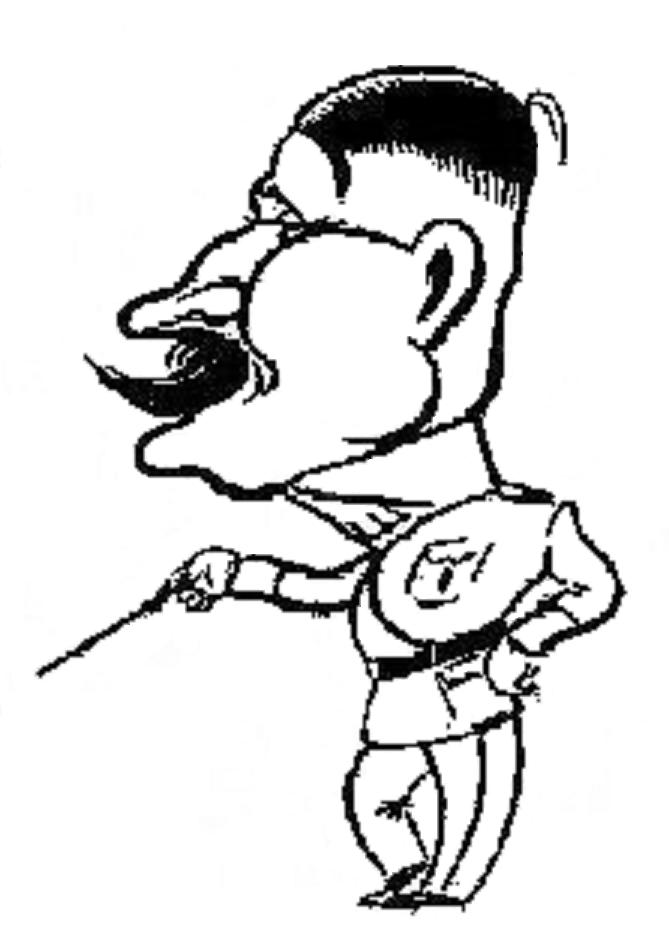 Valerijonas Valeika - kapellmeister of 5th Infantry Regiment of Lithuanian Army. Drawing by Leonas Kaganas from "Sekmadienis" 1933 01 29, page 1.